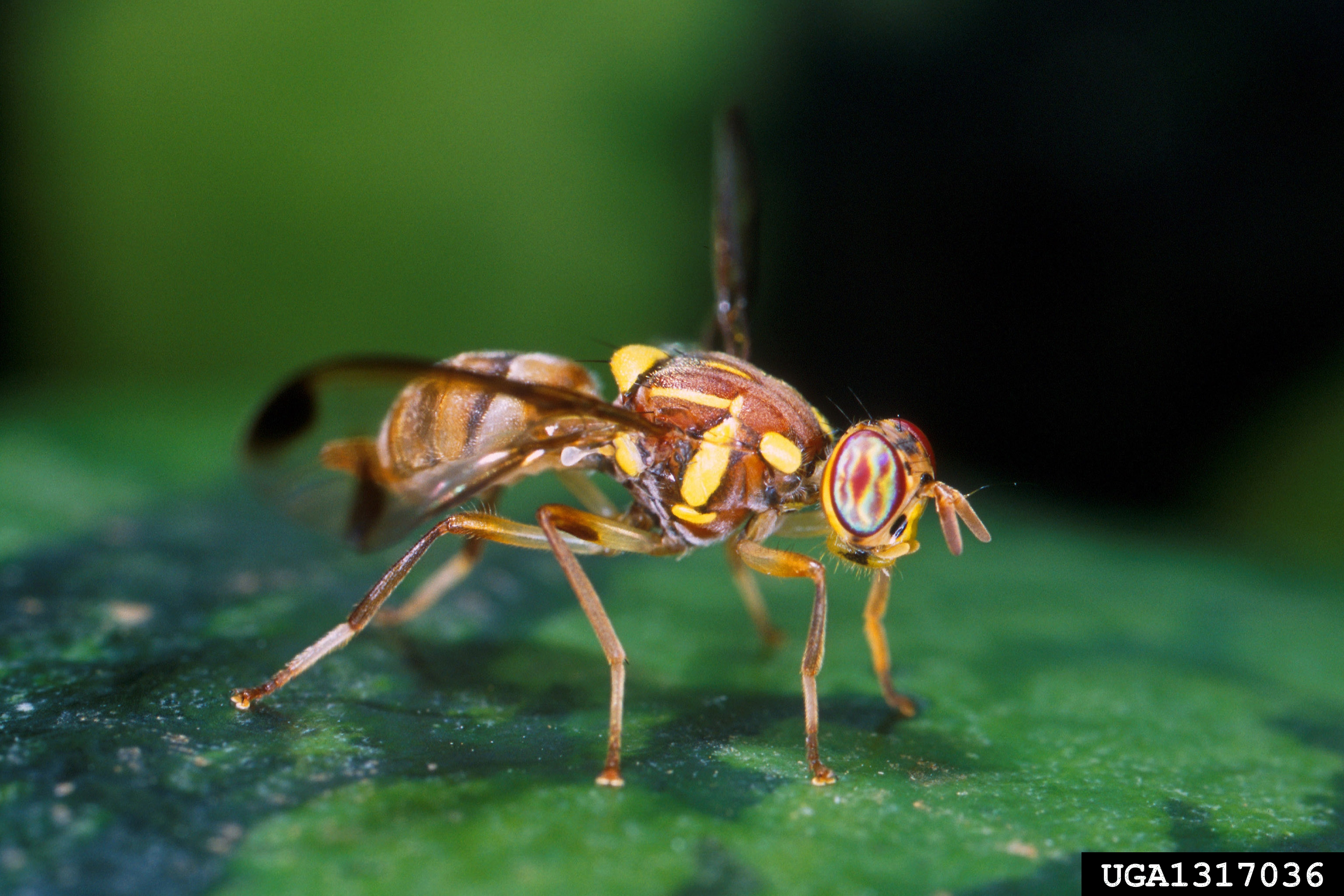 Adult melon fly (Bactrocera cucurbitae)